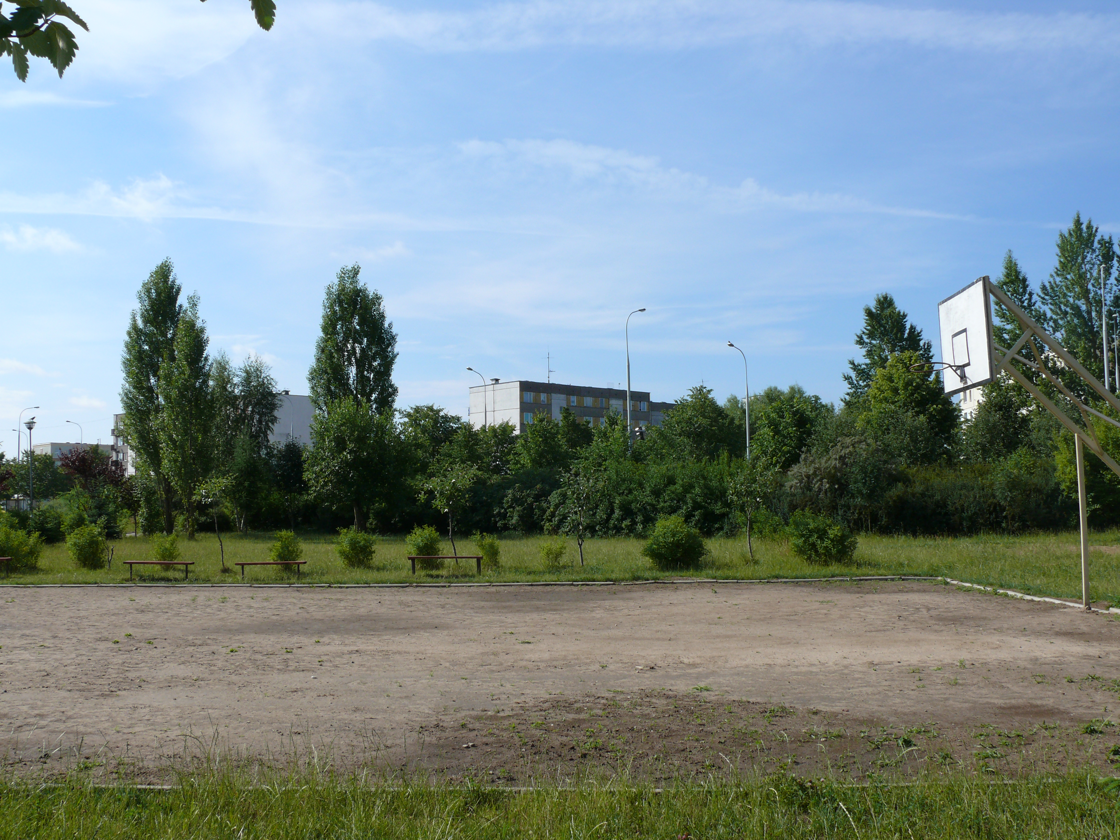 Basketball court nearby Grammar school number 13 in Olsztyn